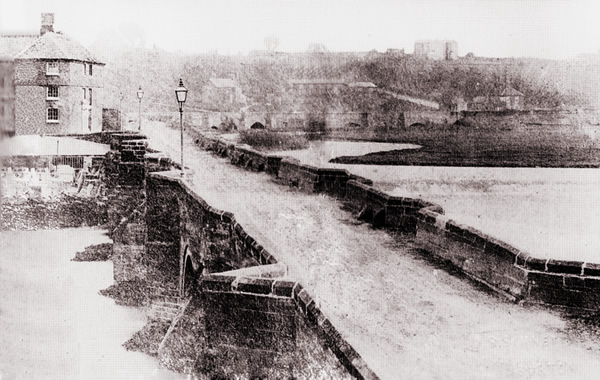 An early photograph of the 36 arch medievel Burton bridge that was replaced in 1863.